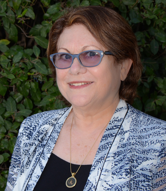 Hermona Soreq 2013